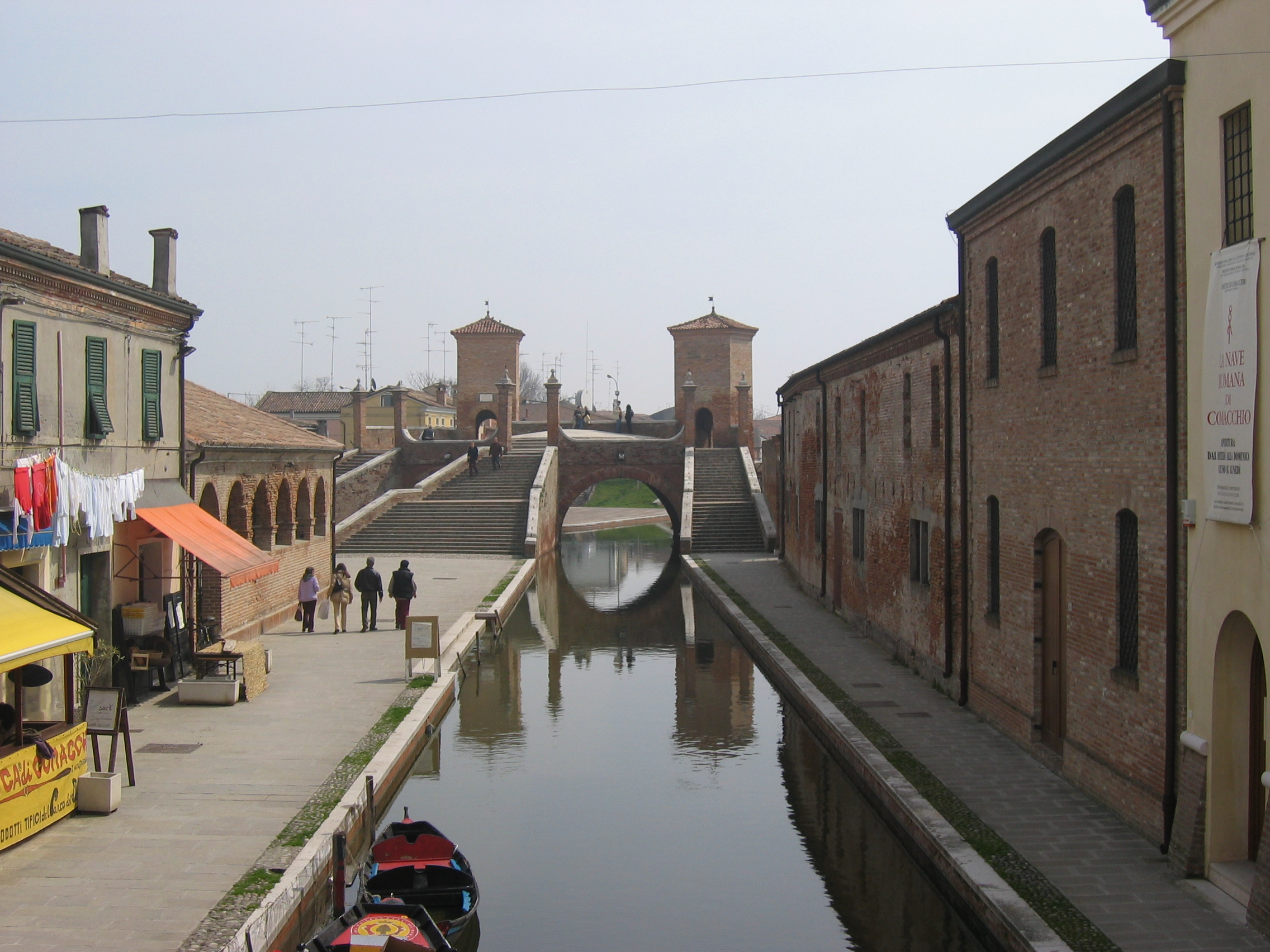 Comacchio (Italy): view of Trepponti (Three bridges) from Ponte degli Sbirri (Bridge of the Screws), on the left the fish market, on the right the Museum of the Roman ship